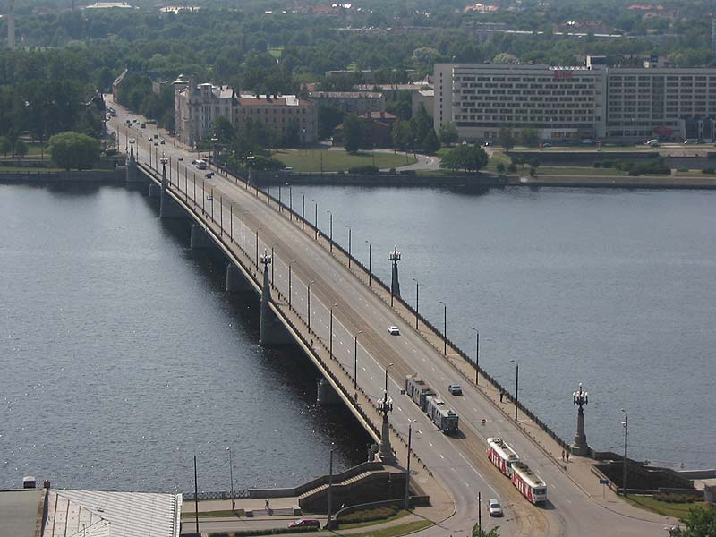 The Stone Bridge (Akmens tilts) in Riga, Latvia, crossing the Daugava River.